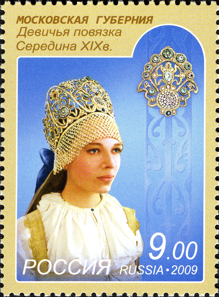 Culture of Russian People - National Head dress - Girl band - Middle of XIX Century, Moscow Province. Postage stamp of Russia. 9 roubles